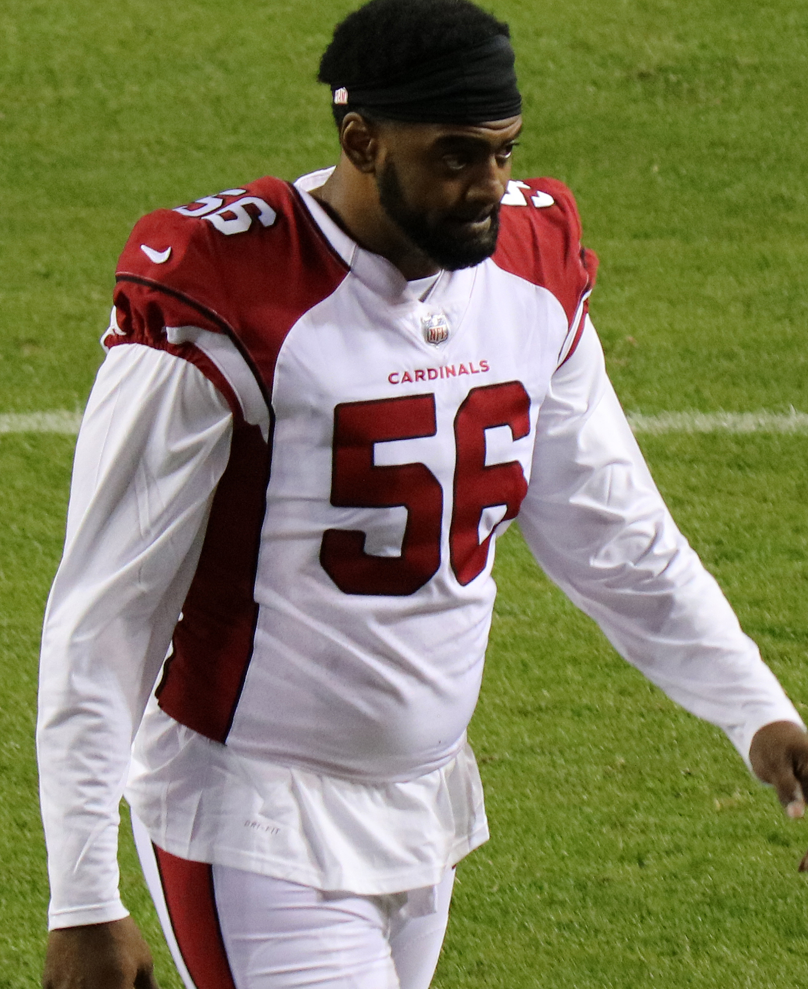 Karlos Dansby, a player on the National Football League.